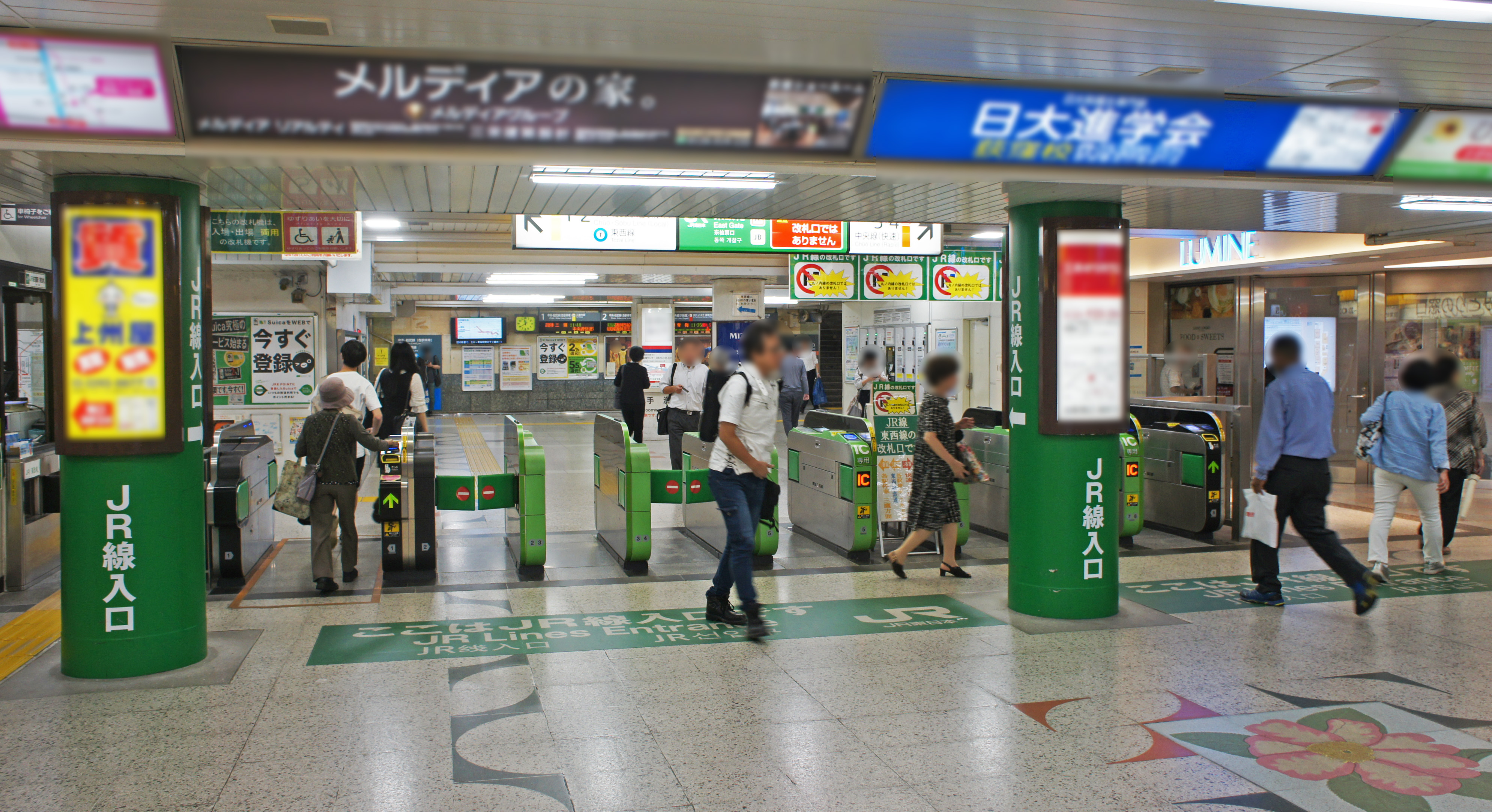 East Gates of JR Chuo-Main-Line Ogikubo Station